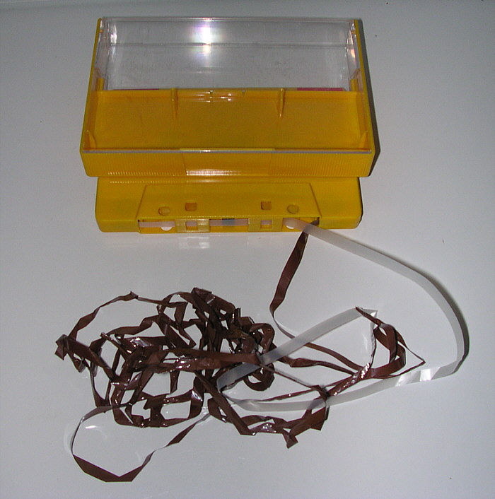 Tape Jamming